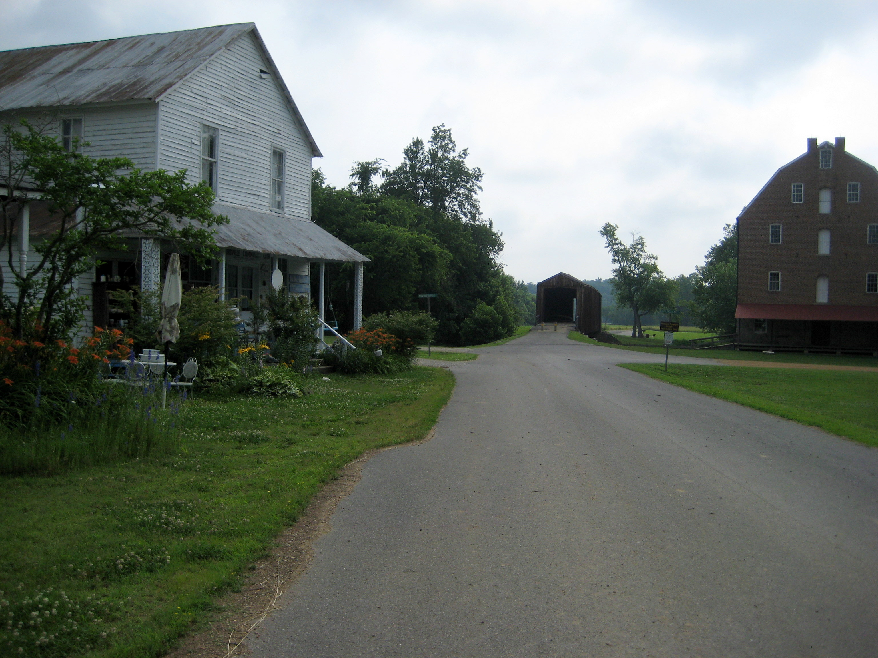 Burfordville, Missouri. Picture includes both the Burfordville Mill and the Burfordville Covered Bridge.